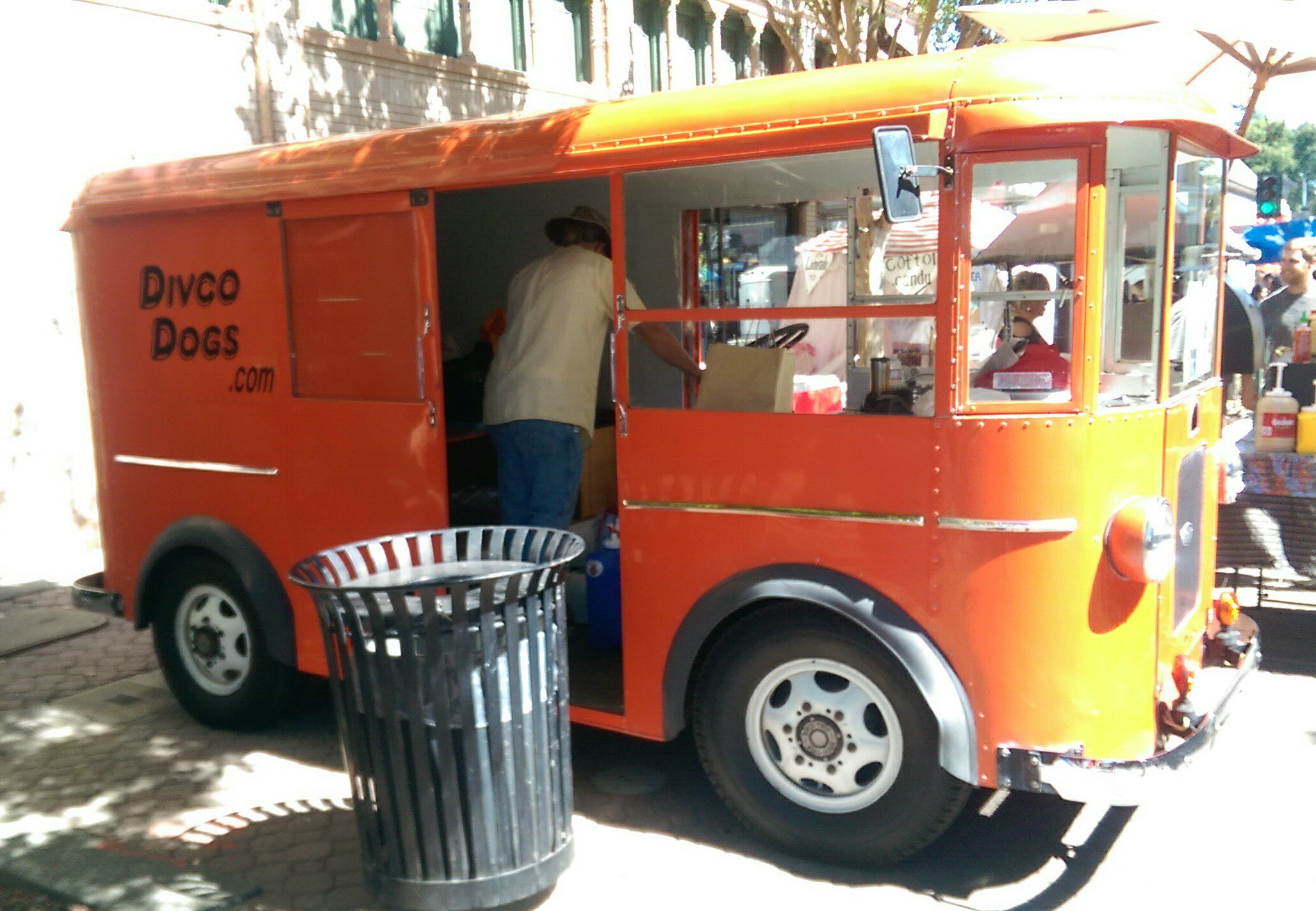 A 1938 Divco Twin delivery truck, restored and used as a hot dog truck. Photo taken in Napa, California.